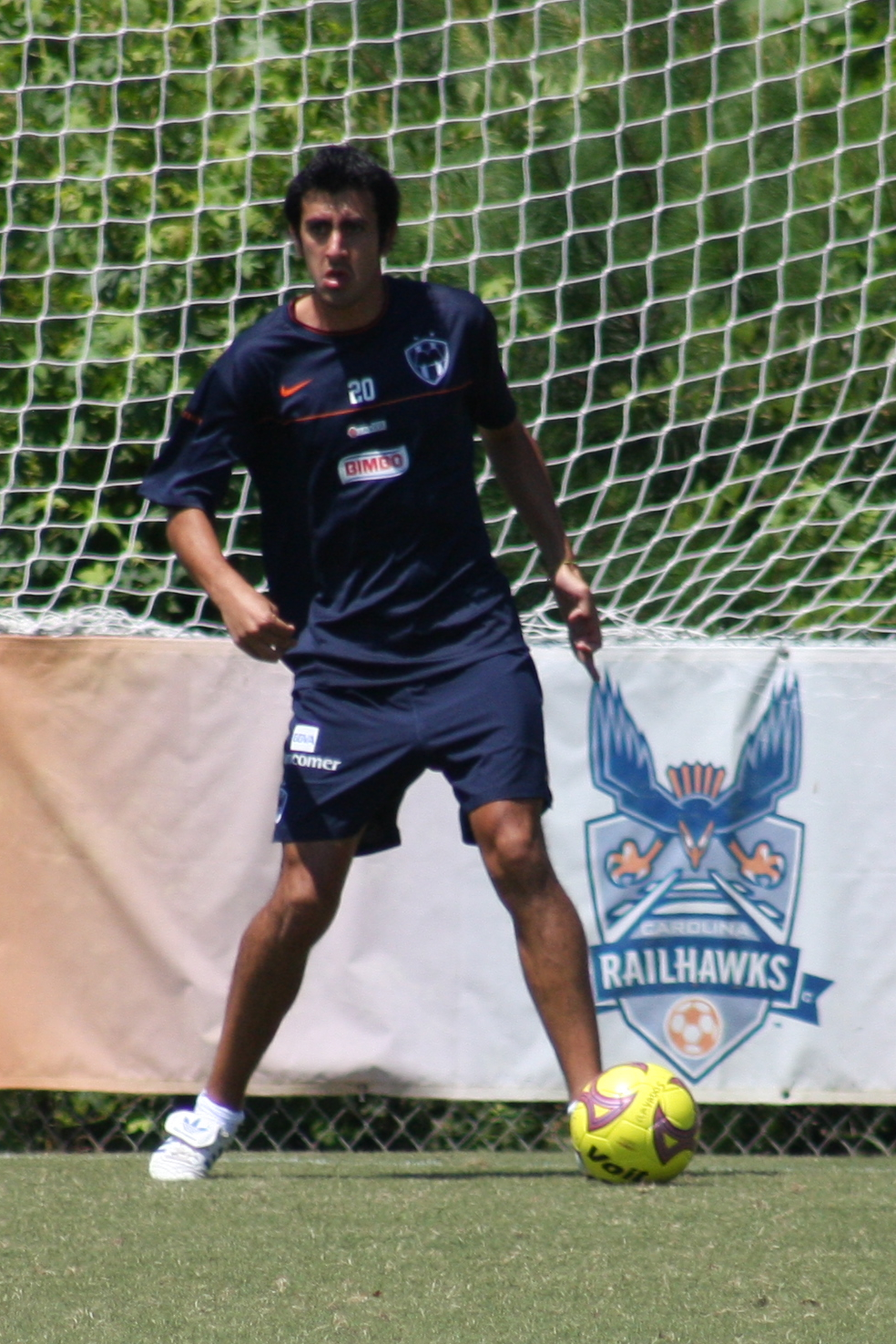 Gonzalo Choy González, Mexican footballer for CF Monterrey